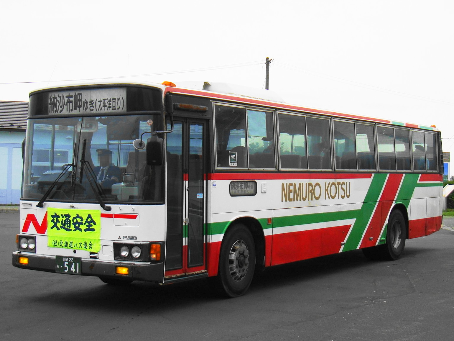 Nemuro Station to Cape Nosappu